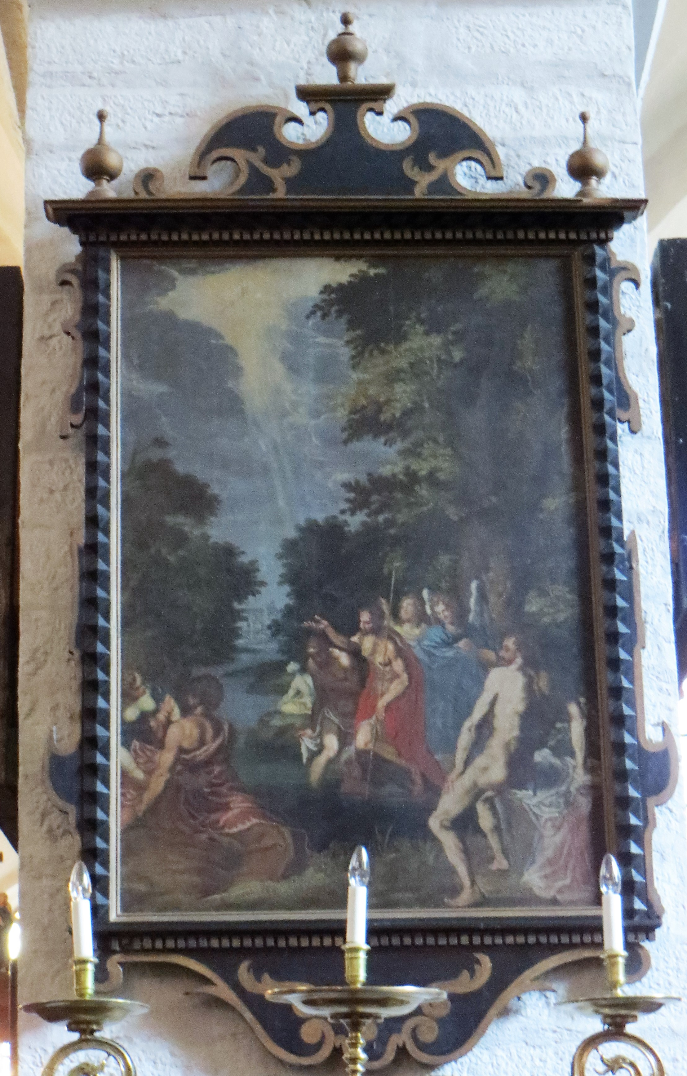 Albrecht von Hembsen (?): The Baptism of Christ, Church of the Holy Spirit, Tallinn